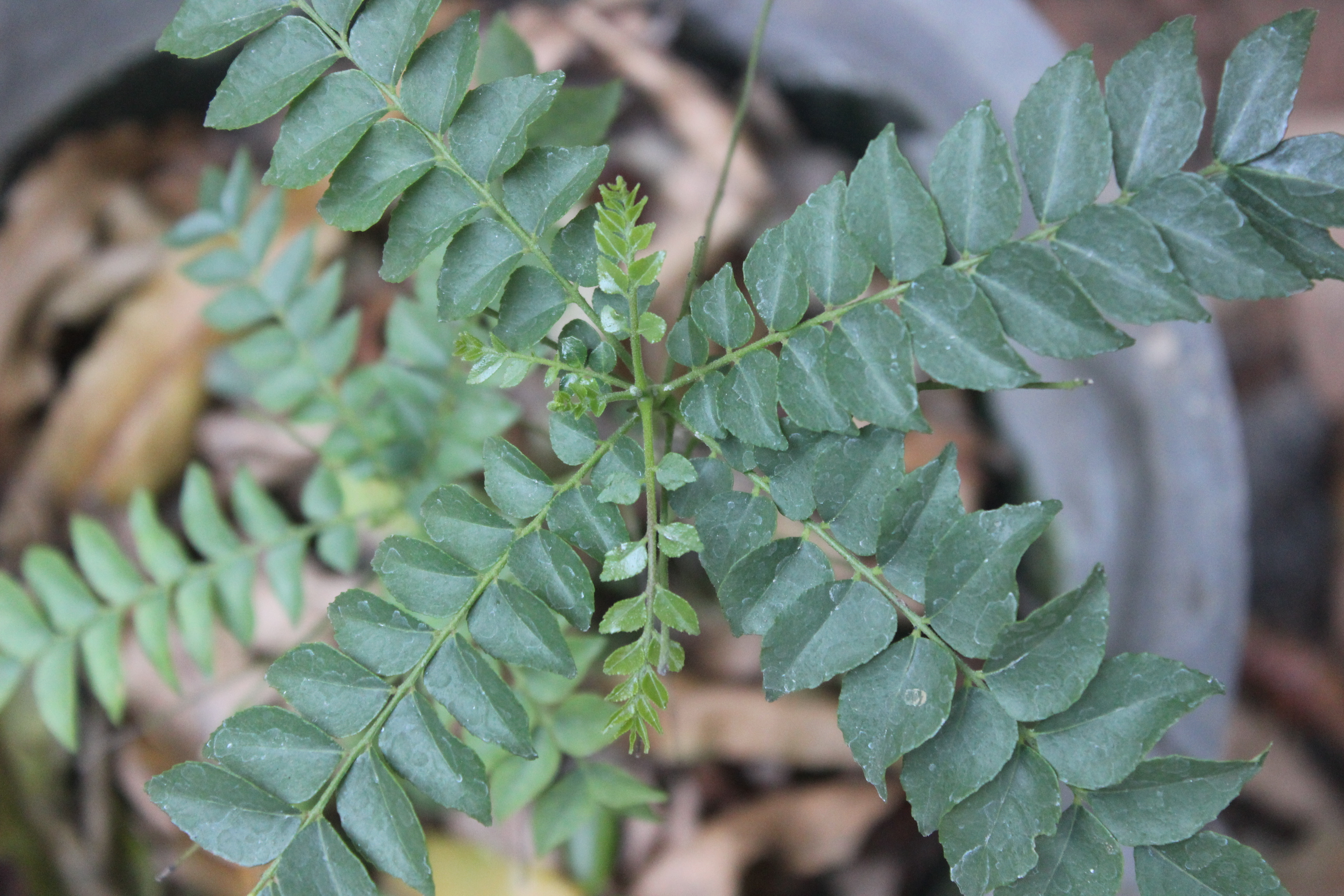 Karibevu